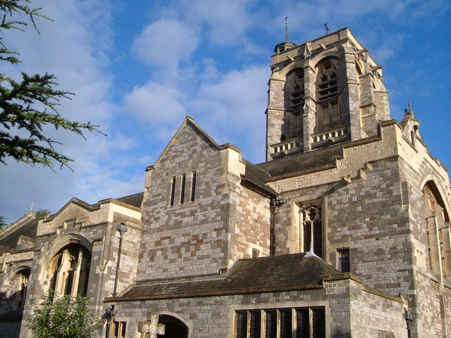 St David's church, Exeter. Built 1897-1900 - architect W. D.Caroe. "Highly picturesque, if restless" say Cherry & Pevsner. Set in a pleasant churchyard at the north end of the city, above the station of the same name.